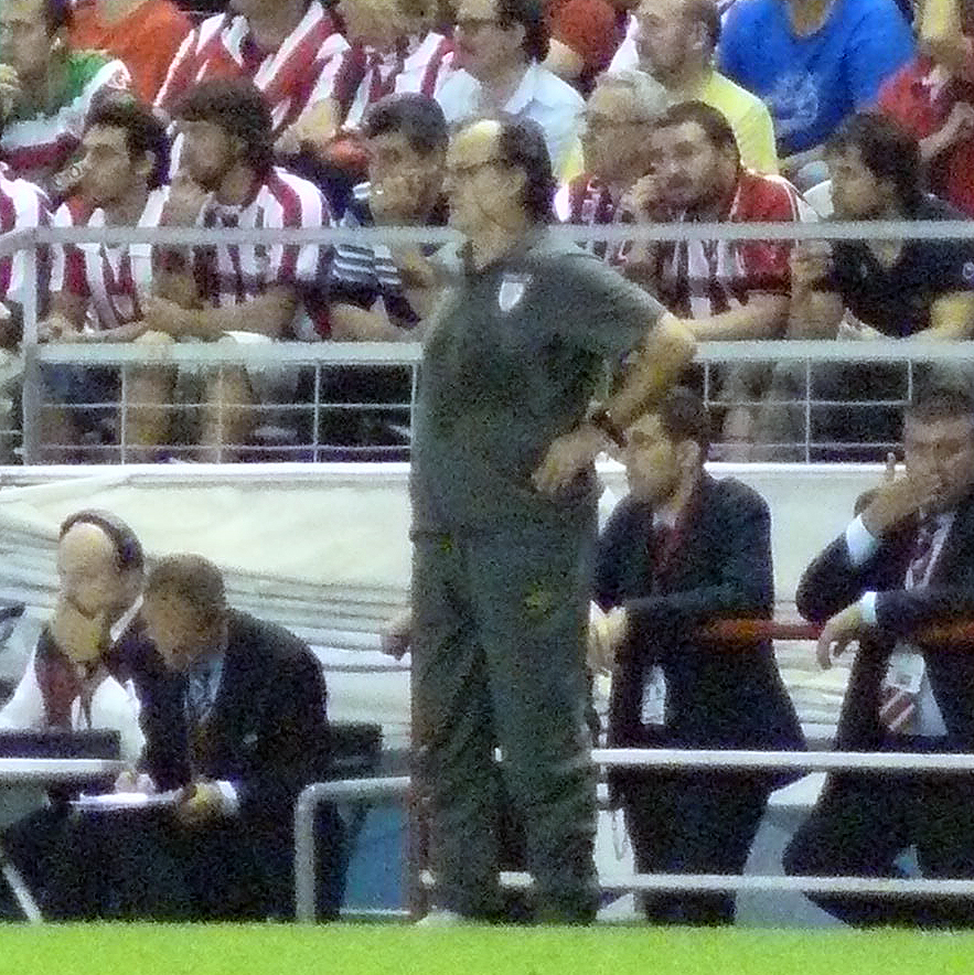 Football coach Marcelo Bielsa, during Europa League match between Athletic Bilbao - PSG.